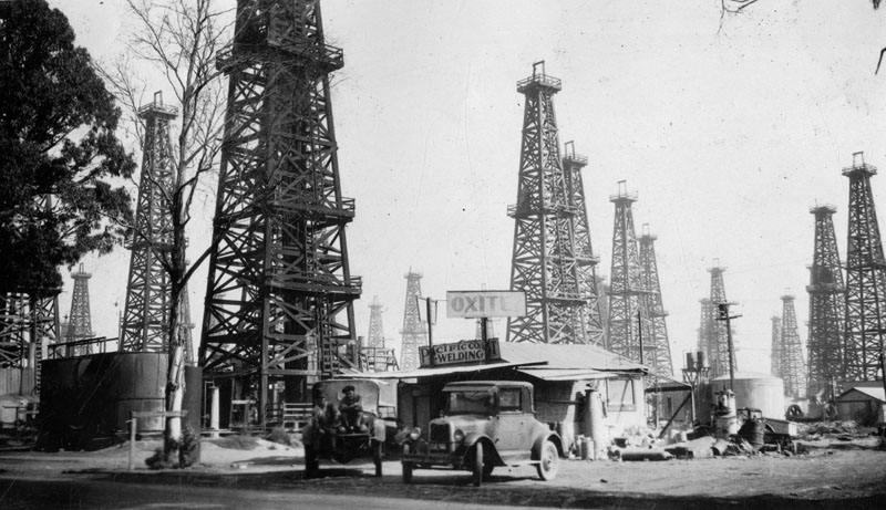 (1926)^ - Two men sit on a car parked next to an oil field full of derricks in Signal Hill. A sign reading, "Pacific Coast Welding" is visible at the roofline of the small structure behind the car. Historical Notes Alamitos #1 well is one of the world's most famous wells. This discovery well led to the development of one of the most productive oil fields in the world and helped to establish California as a major oil producing state. Because of this it is designated as a California Historical Landmark (No. 580).